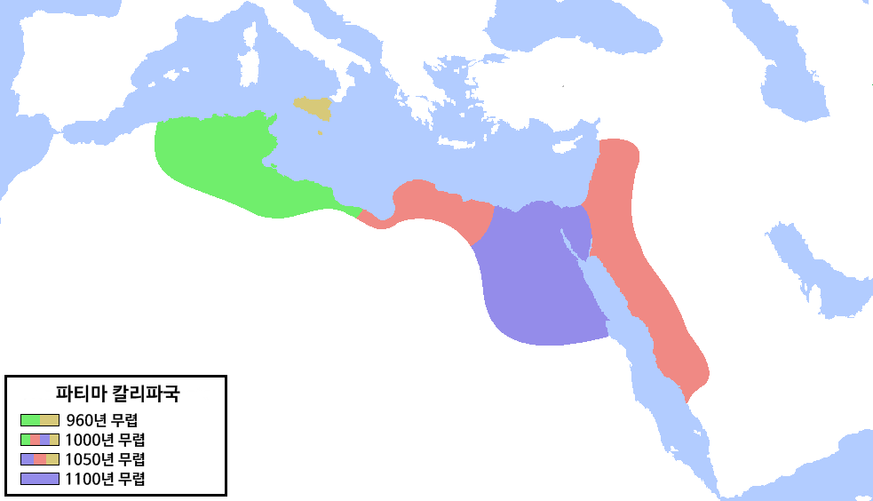 Map the Fatimid Empire (chronological)